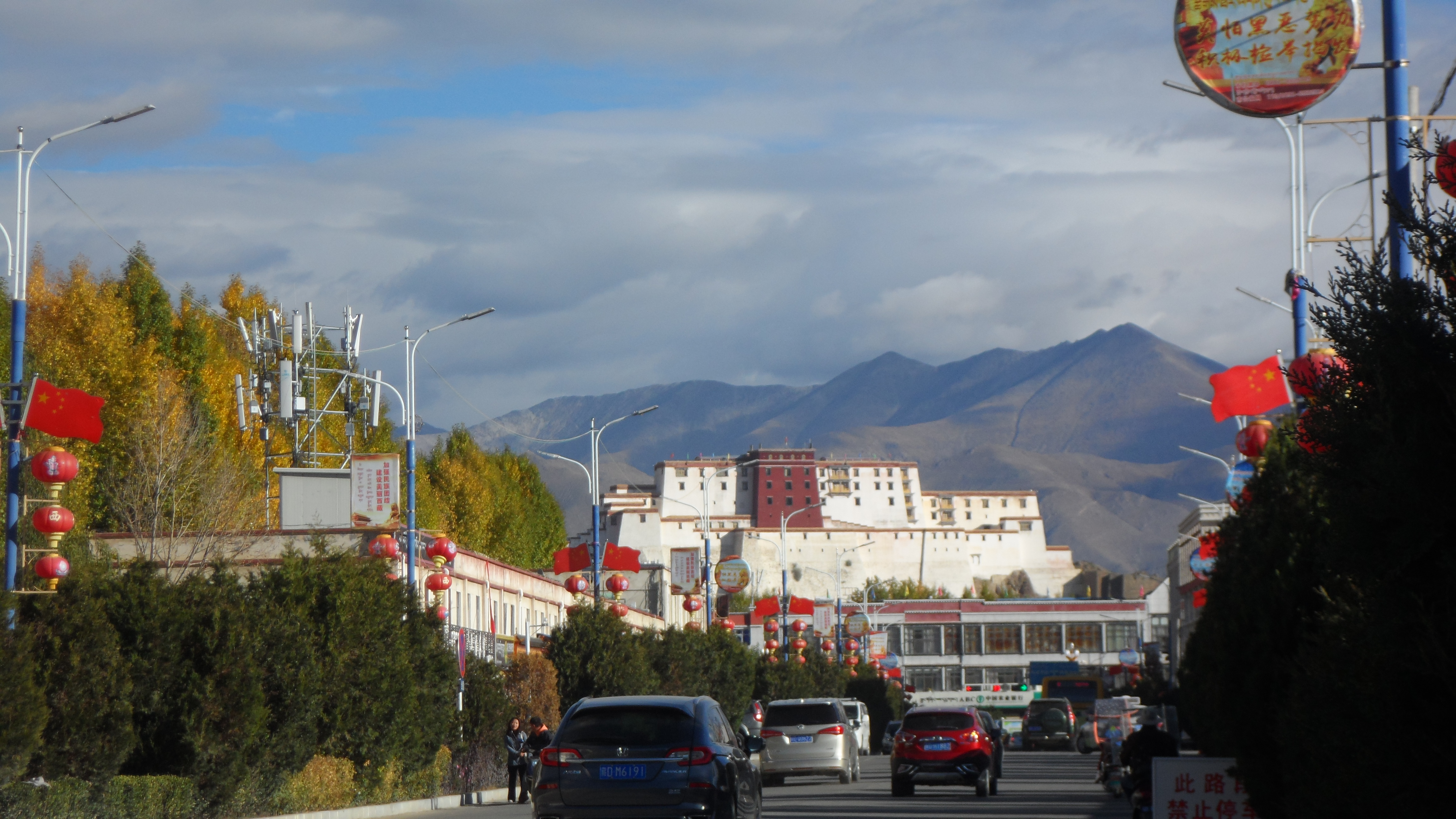 Shigatse Dzong